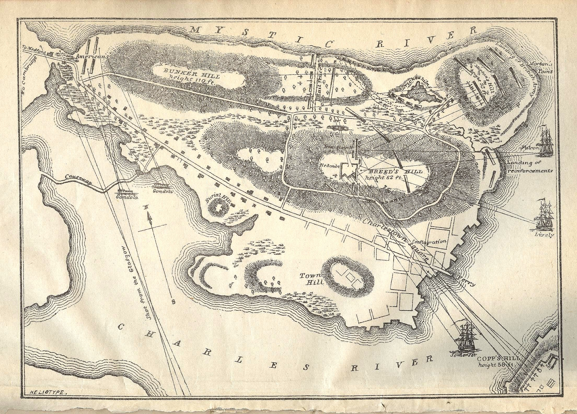 An illustrated map of the battle ground of Battle of Bunker Hill on Charlestown peninsula, encompassing Bunker and Breed's Hills. (George E Ellis. History of the Battle of Bunker's [Breed's Hill] on June 17,1775.... Boston:1875).